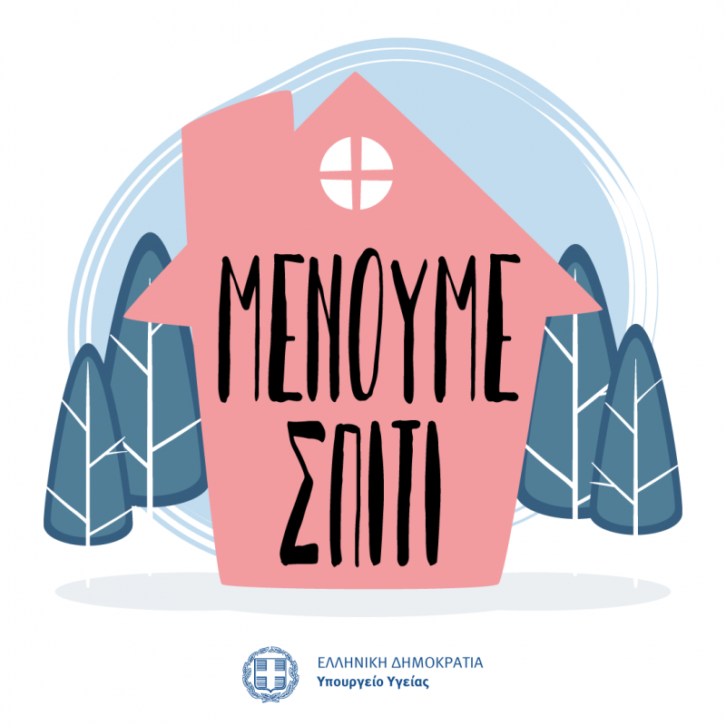 Logo of the "Menoume Spiti" (We Stay Home) campaign of the Hellenic Ministry of Health, during the 2019-20 coronavirus pandemic